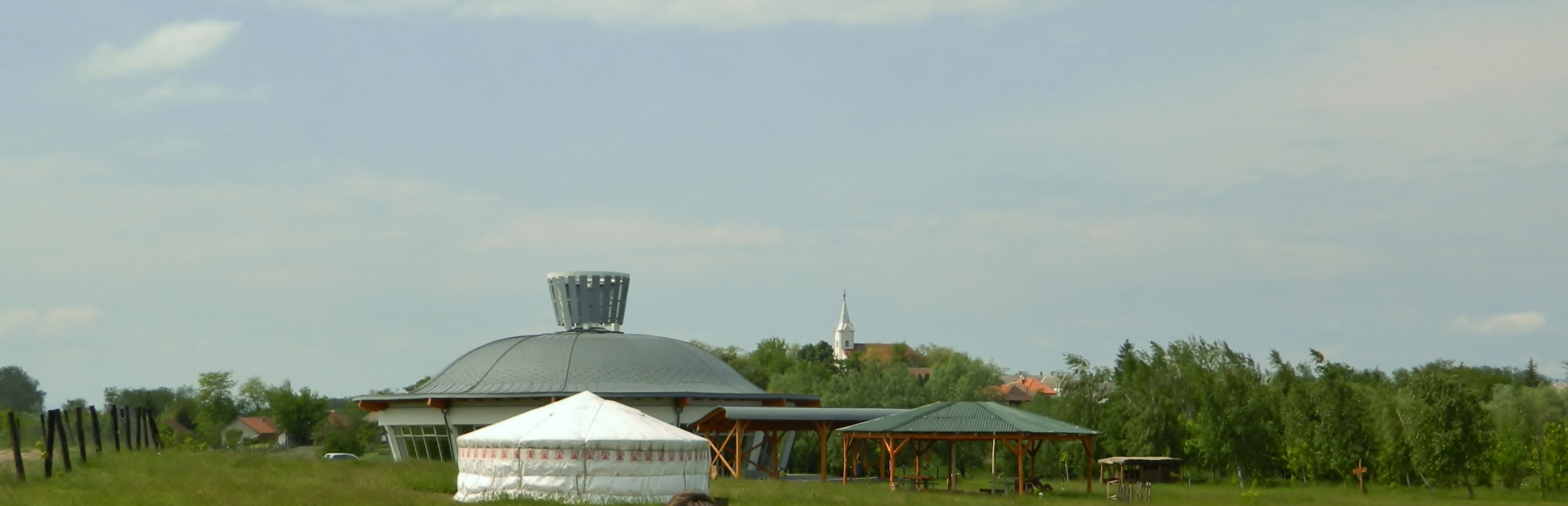 Visitor centre of cemetery from the time of Settlement of the Magyars in Hungary in Karos